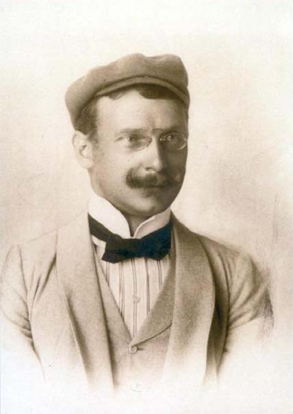 Wilhelm Strohmayer